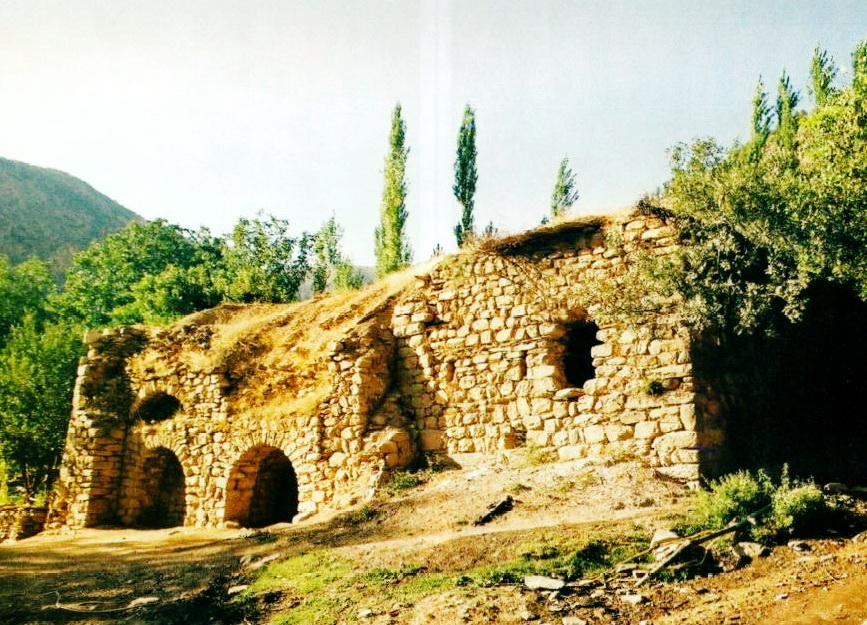 Church of St. John the Arab in Geramon (Yarma), near Andac in Sirnak Province, Turkey.